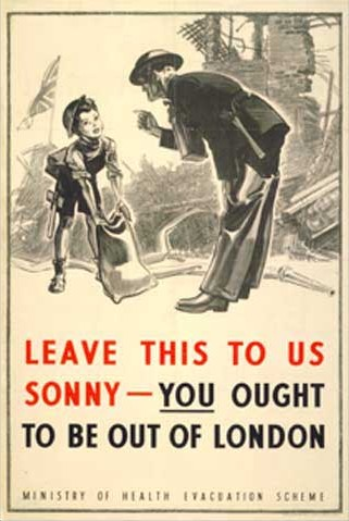 Poster used by the British government in the London Underground to spread the word about the Evacuations of civilians in Britain during World War II